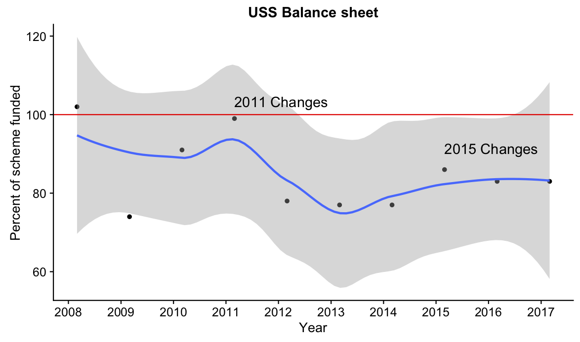 A plot of the USS ("Universities Superannuation Scheme") pension fund deficit across time. R code to create graph library(ggplot2) library(cowplot) ============================ = data read and formatting = ============================ fp = "~/Desktop/USS_pension_assets_and_liabilities.xlsx" df = gdata::read.xls(xls = fp, stringsAsFactors=FALSE, sheet="transposed") df$Year = as.Date(paste0(df$Year, "-03-01")) df$percent_funded = df$percent_funded *100 as.numeric(df$Year) ================== = Construct Plot = ================== p = qplot(Year, percent_funded, data= df) p = p + geom_smooth(method = "auto", se = TRUE) p = p + labs(title= "USS Balance sheet", x = "Year", y = "Percent of scheme funded") p = p + geom_hline(yintercept = 100, color = "red")+ theme(text = element_text(size = 13)) p = p + scale_x_date(date_breaks = "1 year", date_labels = "%Y", minor_breaks = NULL) p = p + draw_label("2011 Changes", x = 15034, y = 102, hjust = 0, vjust = 0) p = p + draw_label("2015 Changes", x = 16495, y = 90, hjust = 0, vjust = 0) p